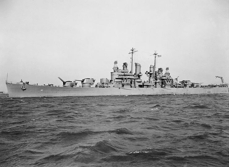 The U.S. Navy ligh cruiser USS Montpelier (CL-57) photographed circa early December 1942, probably in the vicinity of the Philadelphia Navy Yard, Pennsylvania (USA). Note the Mk 4 radar antennae on the Mk 37 directors.